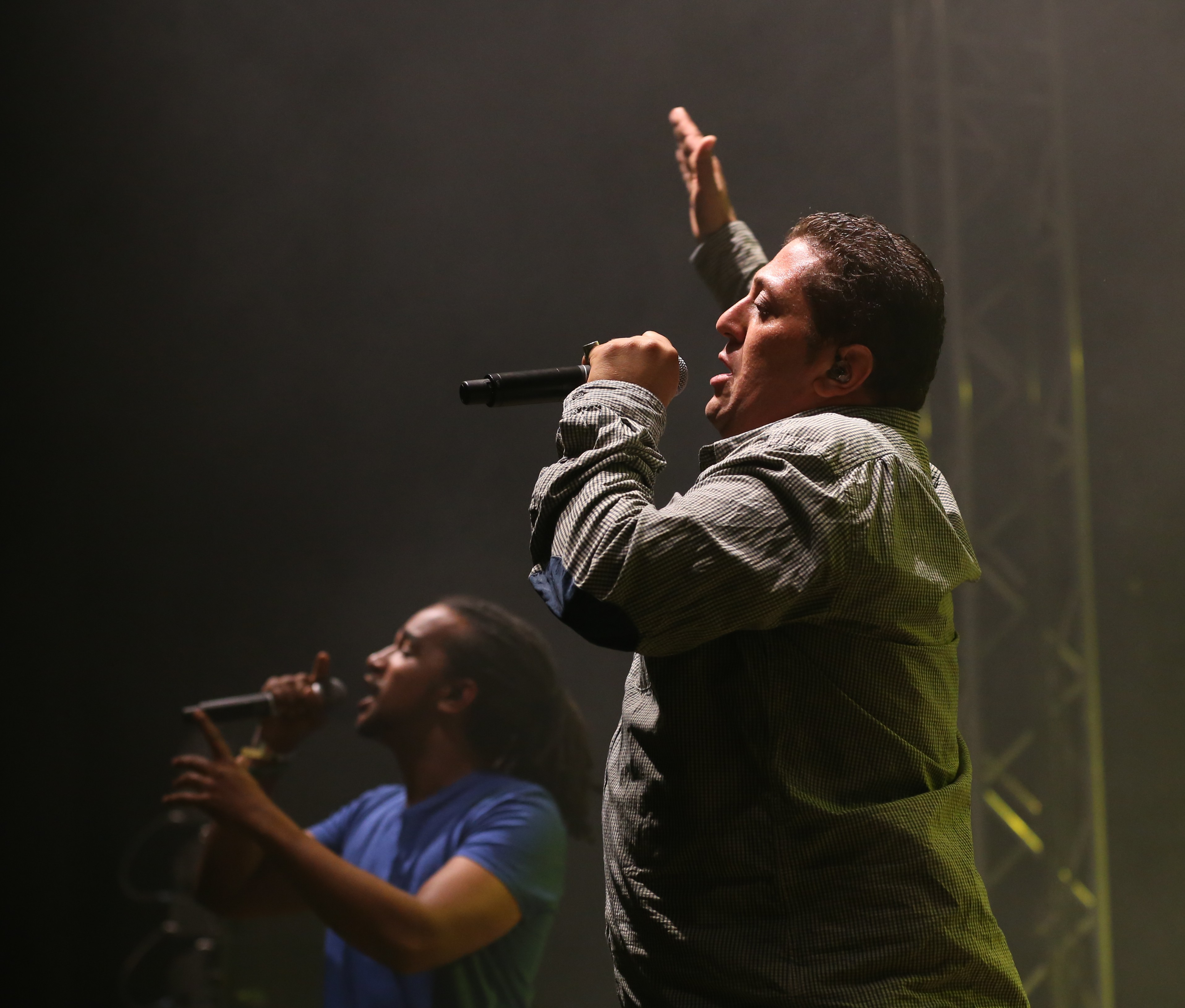 Dub Incorporation at Chiemsee Reggae Summer Festival 2013.